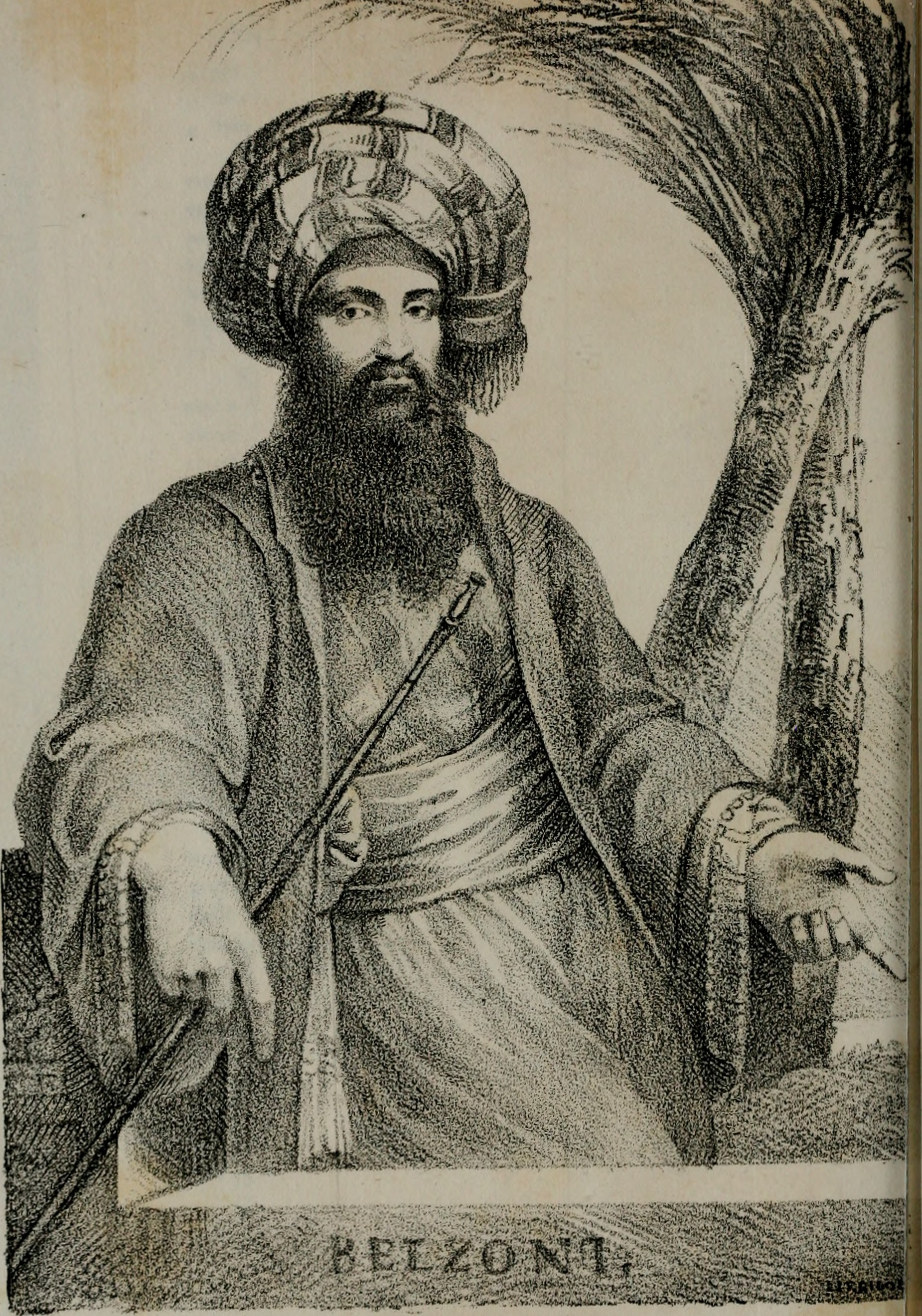 Title: Antologia. Giornale di Scienze, Lettere e Arti Identifier: antologiagiornal03fire Year: 1821 (1820s) Authors: Subjects: Publisher: Firenze Text Appearing Before Image: ' Text Appearing After Image: 1